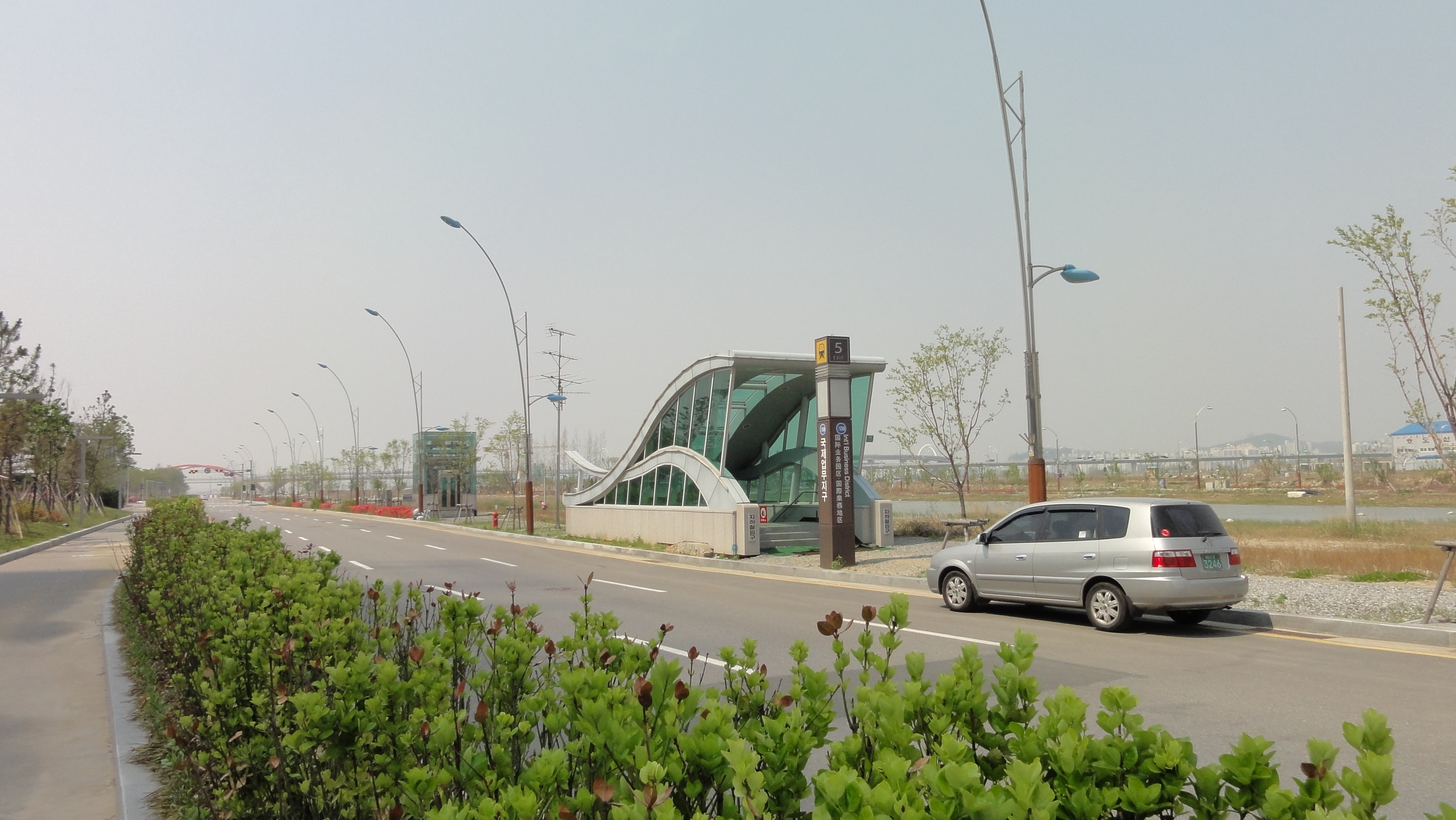 A view of exit 5 of the International Business District station in Songdo, Incheon, South Korea, in May 2011. This district is part of a planned city and is still under construction; that is why there are no buildings or skyscrapers to be seen yet in the picture. The district is due to be completed in 2015. As the street is slightly diagonal, this picture is looking straight to the north.